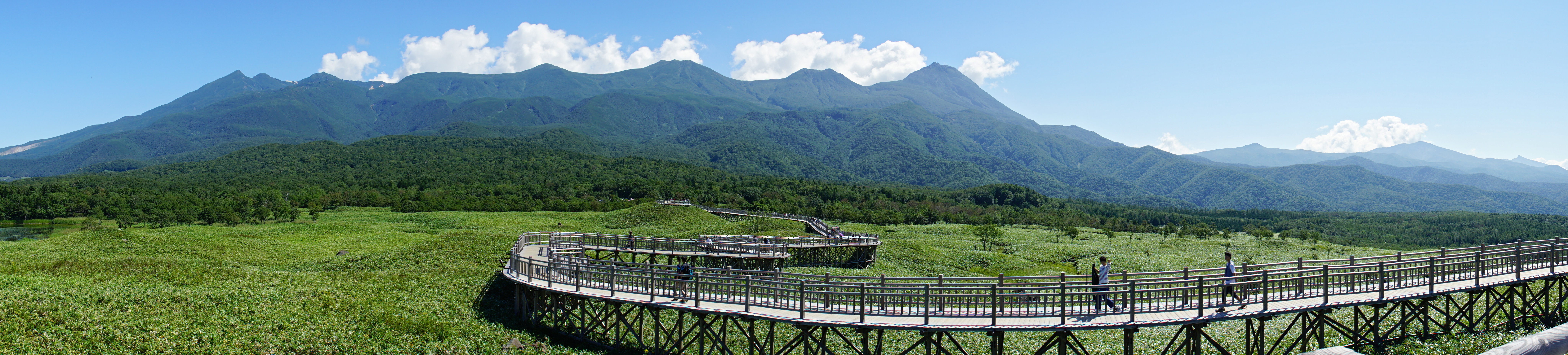 At Shiretoko Goko Lakes in Shari, Hokkaido prefecture, Japan.